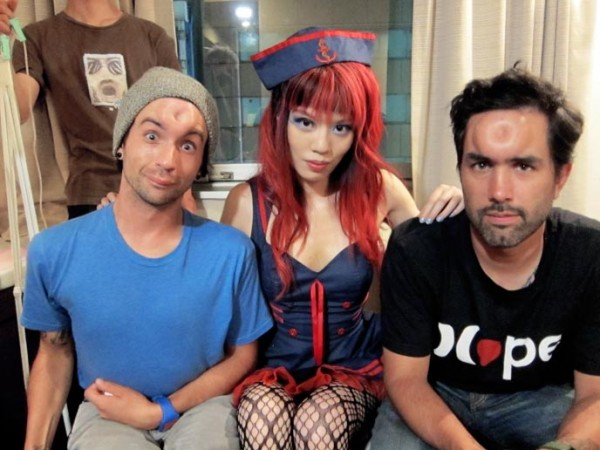 TV organizer La Carmina between two bagel heads